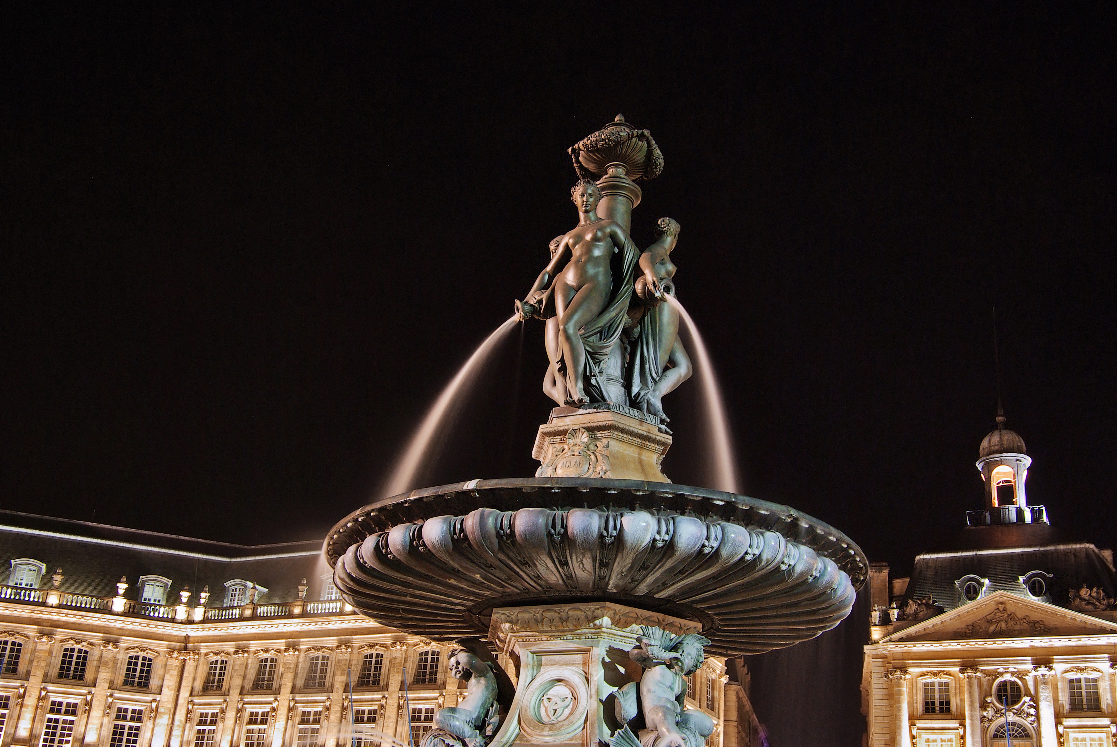 The three graces fountain at the Place De La Bourse, Bordeaux (France)